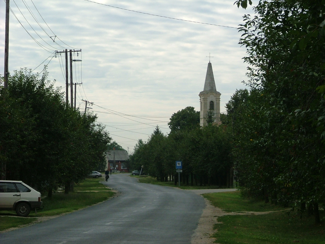 Rábacsécsény